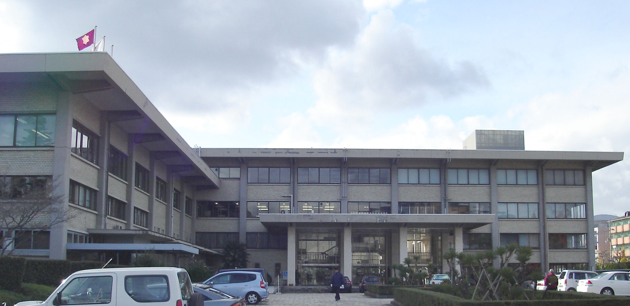 Kyoto Prefectural Library and Archives